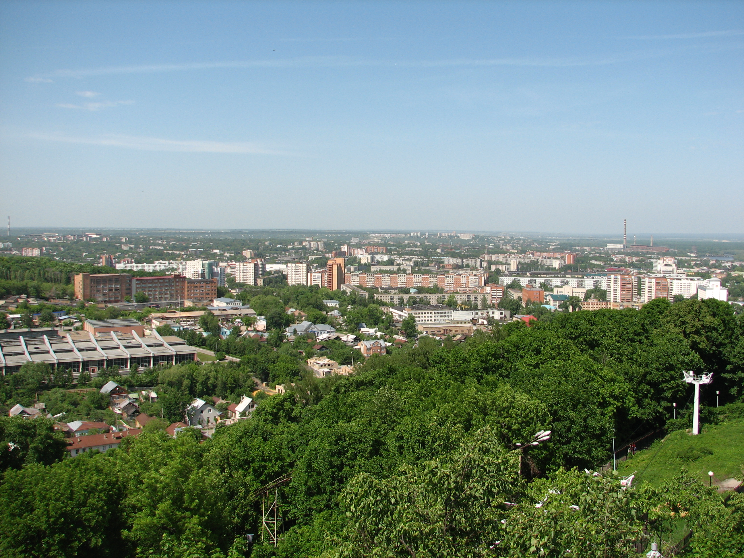 Penza from Ferris wheel